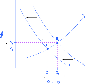 A change in tastes from print news sources to digital sources results in a leftward shift in demand for the former. The result is a decrease in both equilibrium price and quantity.